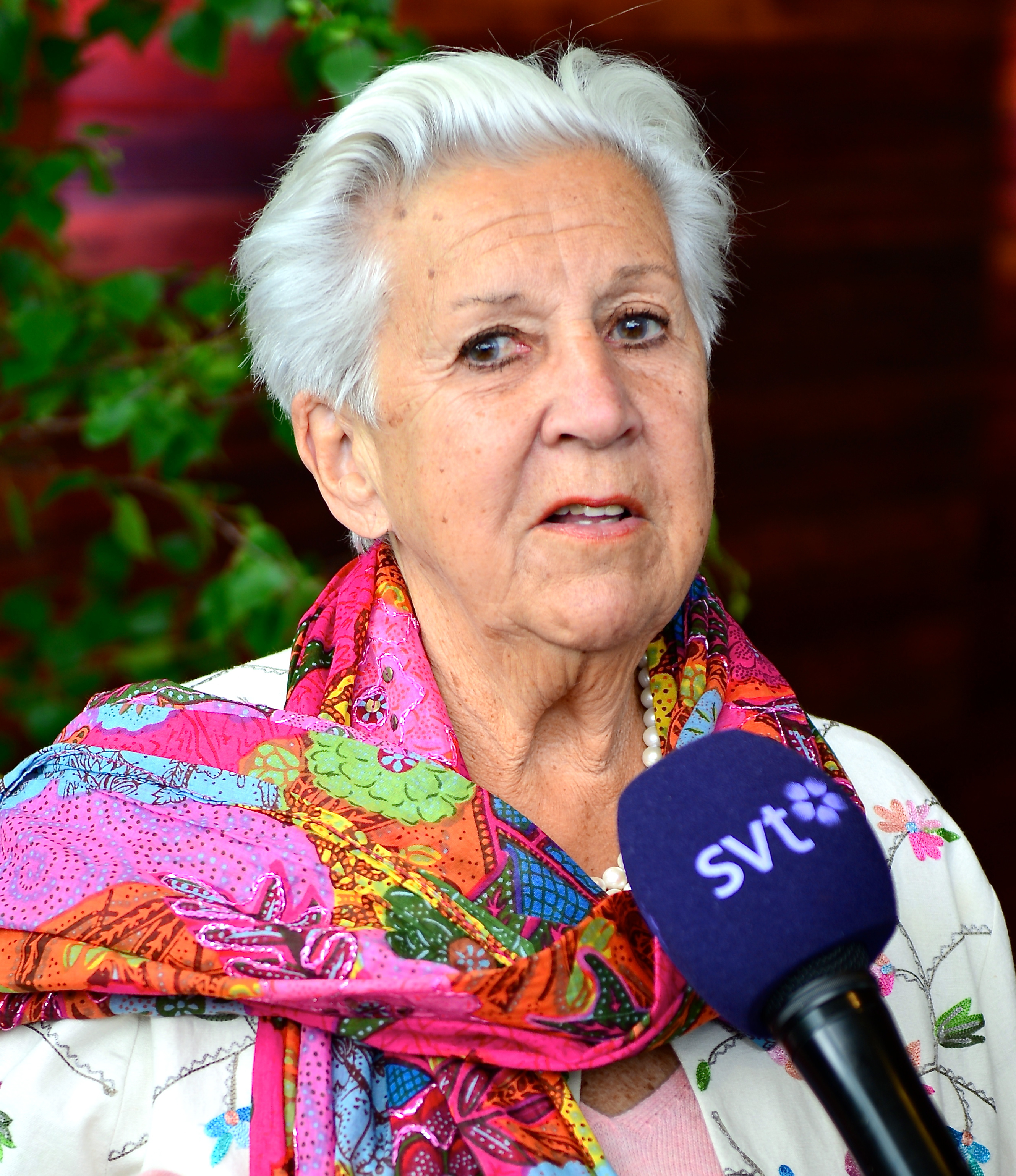 Kjerstin Dellert during the stage presentation to Allsång på Skansen in Stockholm June 11, 2013.